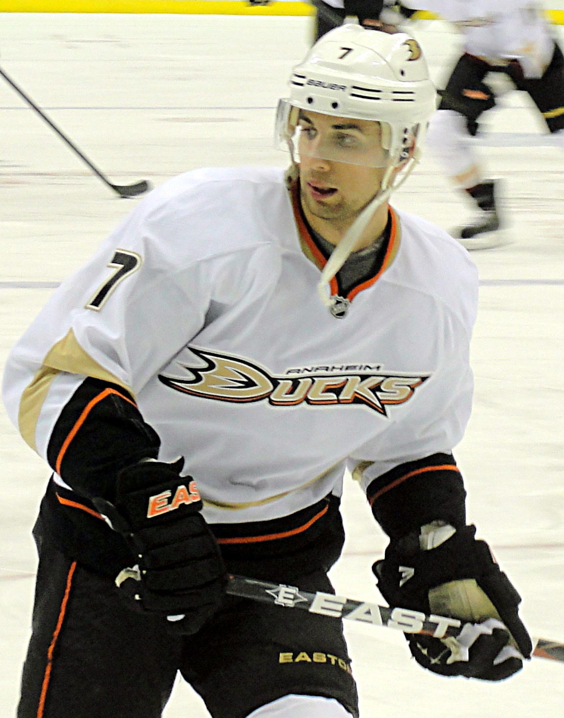 Andrew Cogliano of the Anaheim Ducks skates against the Pittsburgh Penguins, February 15, 2012 at Consol Energy Center in Pittsburgh, PA.